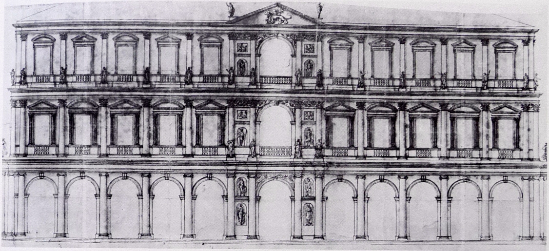 Andrea Palladio. Palazzo ducale in Venice, Italy, Master elevation, 16th c.